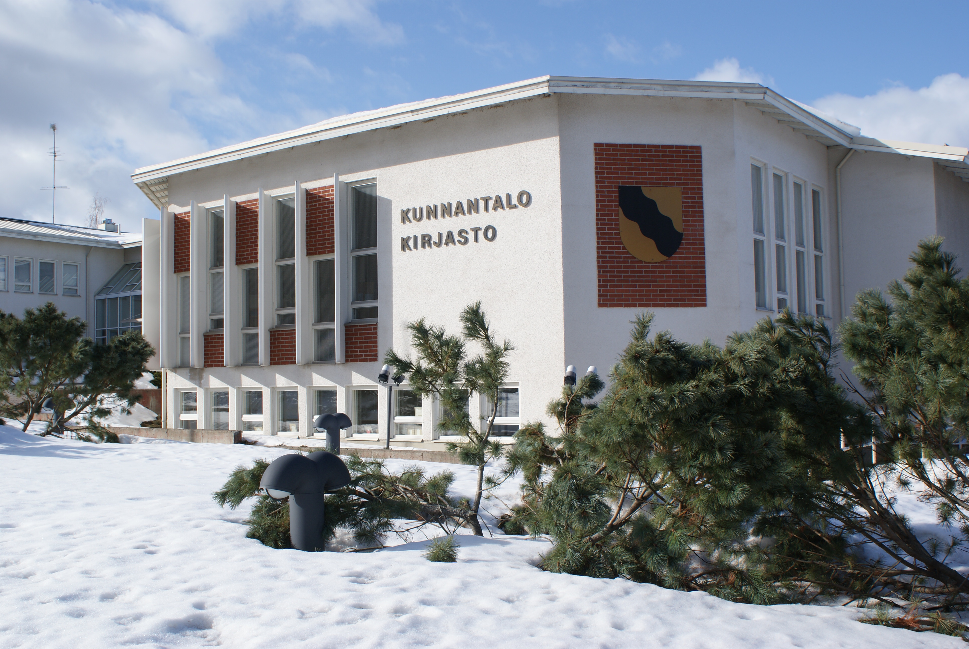 Municipal building of Rantasalmi, Finland